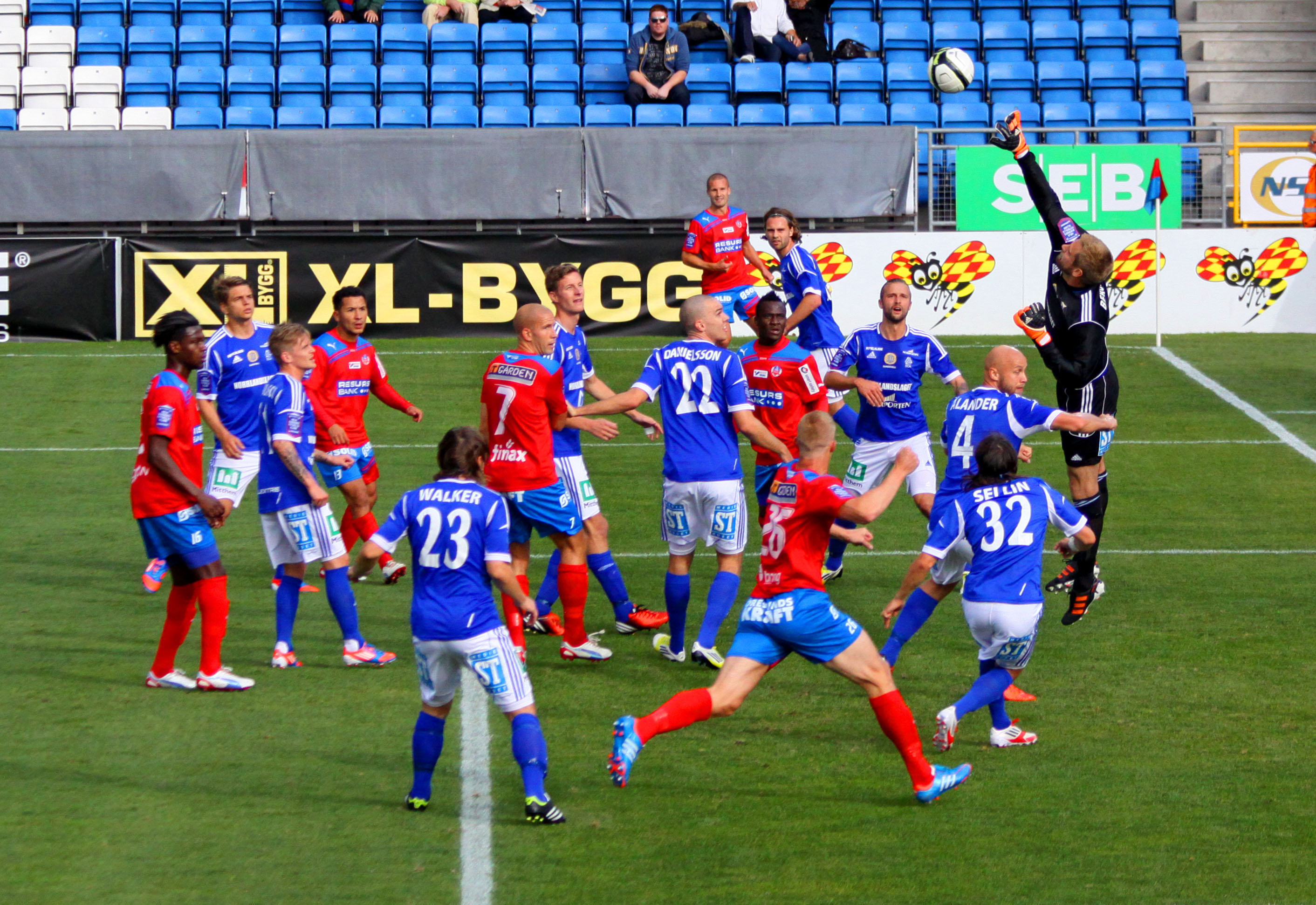 GIF Sundsvall playing an away game against Helsingborgs IF.